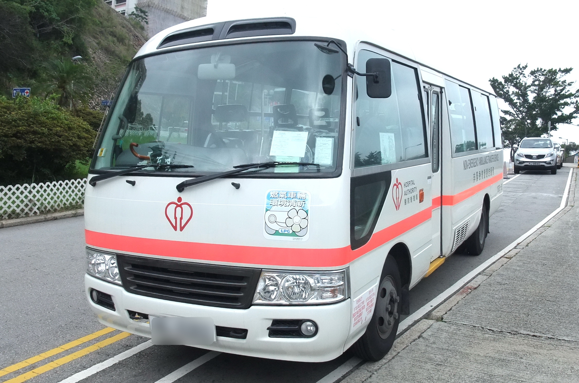 Hospital Authority Non-emergency Ambulance Transfer Service (Hong Kong)